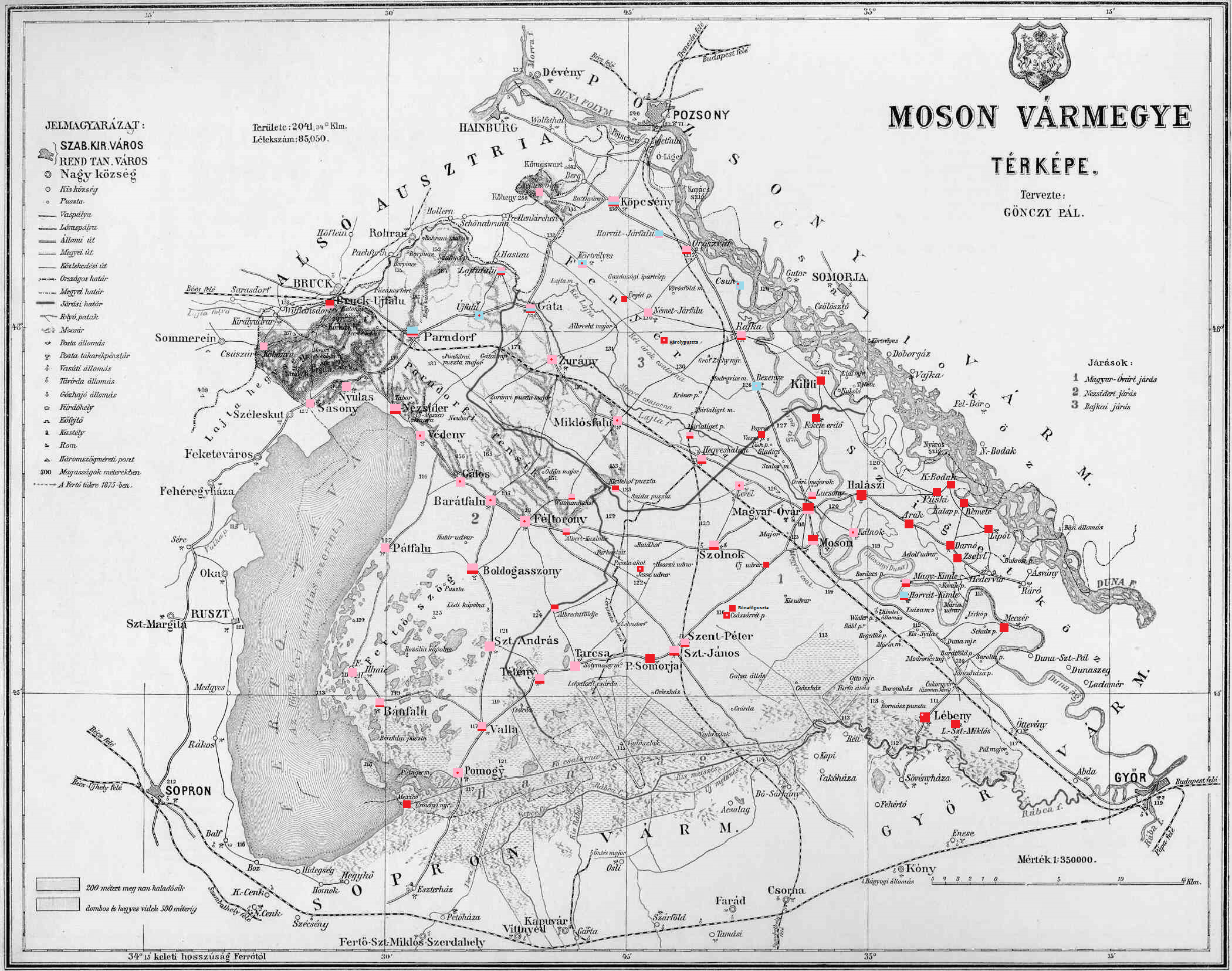 Ethnic map of the county (with data of the 1910 census). Key: red - Hungarians; pink - Germans; light blue - Croatians. Coloured dots in plain rectangles imply the presence of smaller minority populations (generally more than 100 people or 10%). Multicoloured rectangles imply cities and villages with multi-ethnic populations with the order of the stripes following the ethnic composition of the settlement. A couple of smaller, unincorporated settlements are also indicated to give a fuller picture.